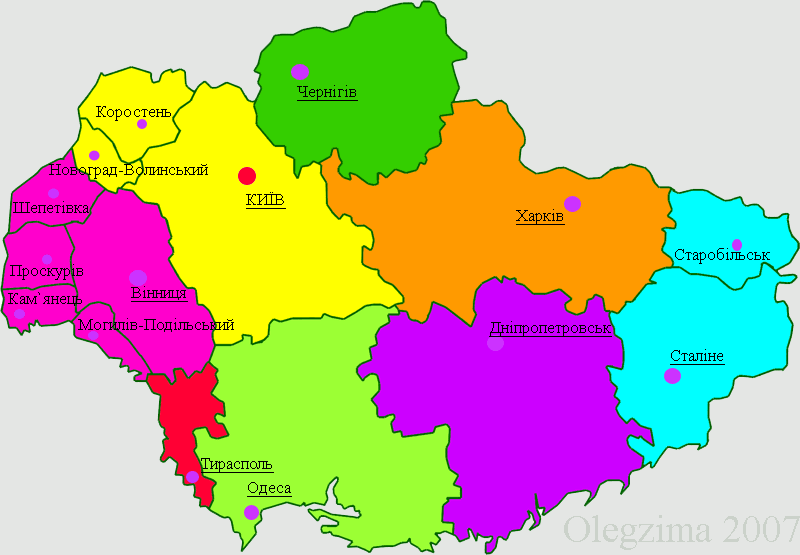 map of division of Ukrainian SSR (Ukraine) in 1932 - 1937